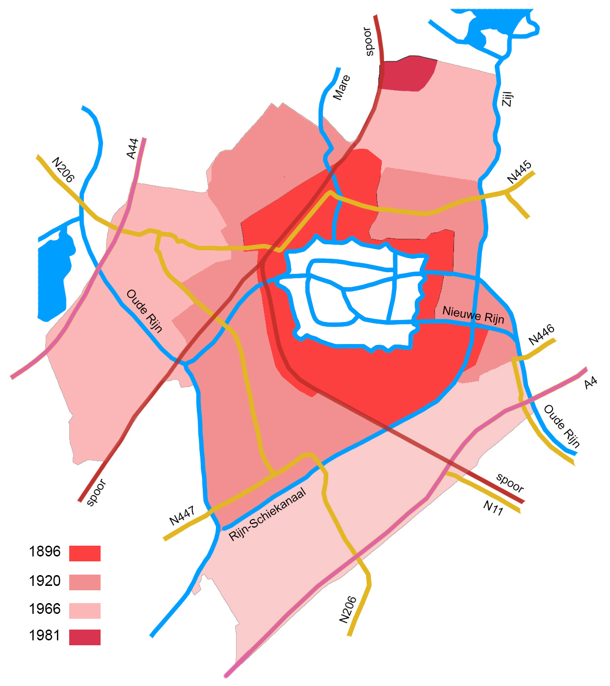 1896-1981 Leiden grew 12 times as large at the expense of neighbouring municipalities